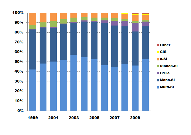 Market share of the different PV technologies. In 2010 the market share of thin film declined by 30% as thin film technology was displaced by more efficient crystalline silicon solar panels (the light and dark blue bars).